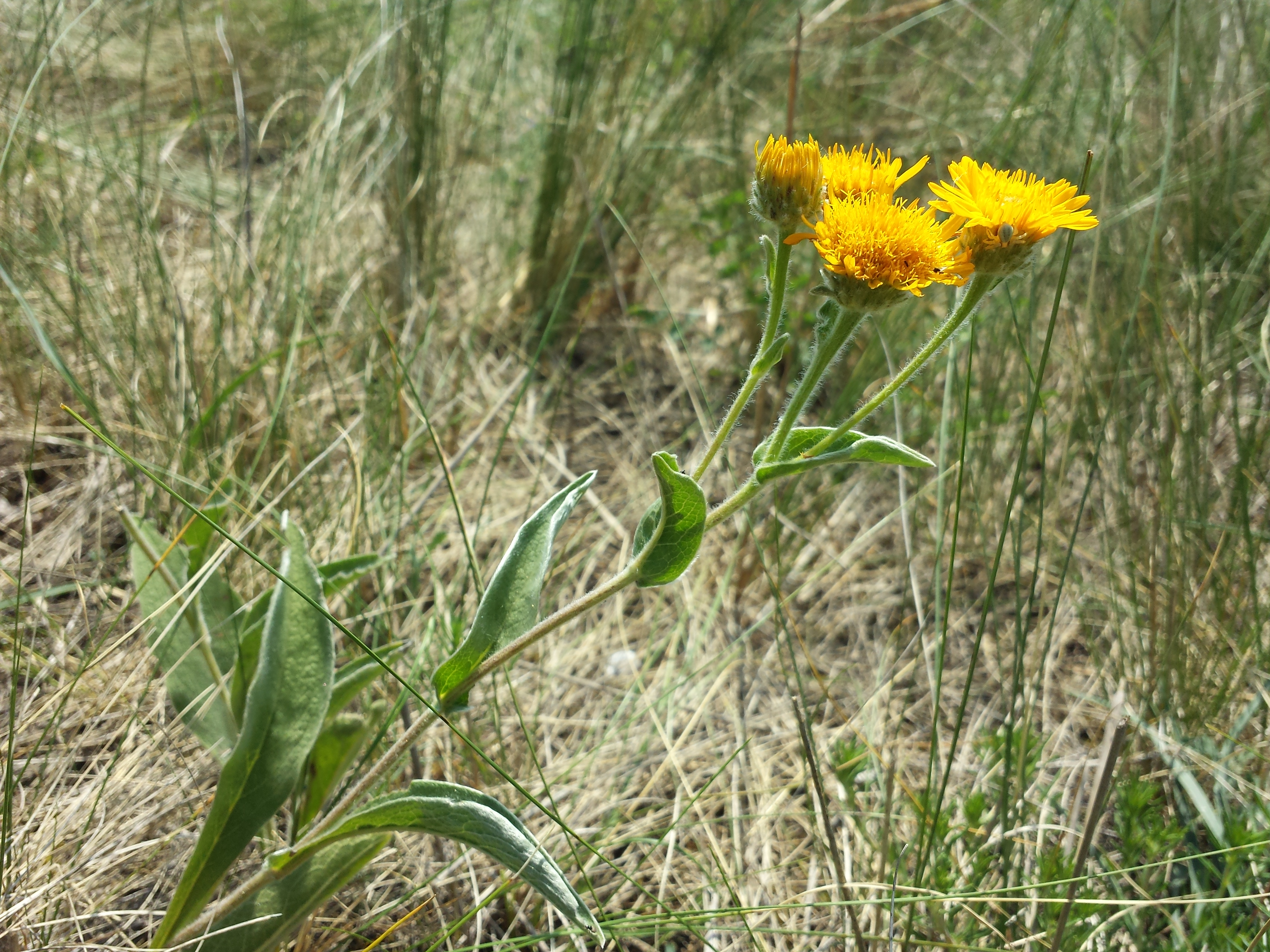 Habitus Taxonym: Inula oculus-christi ss Fischer et al. EfÖLS 2008 ISBN 978-3-85474-187-9; det. Gergely Király 2015-06-07 Location: Dolomite hills to the south of Öskü, Veszprém County, Hungary - ca. 200 m a.s.l. Habitat: dry grassland